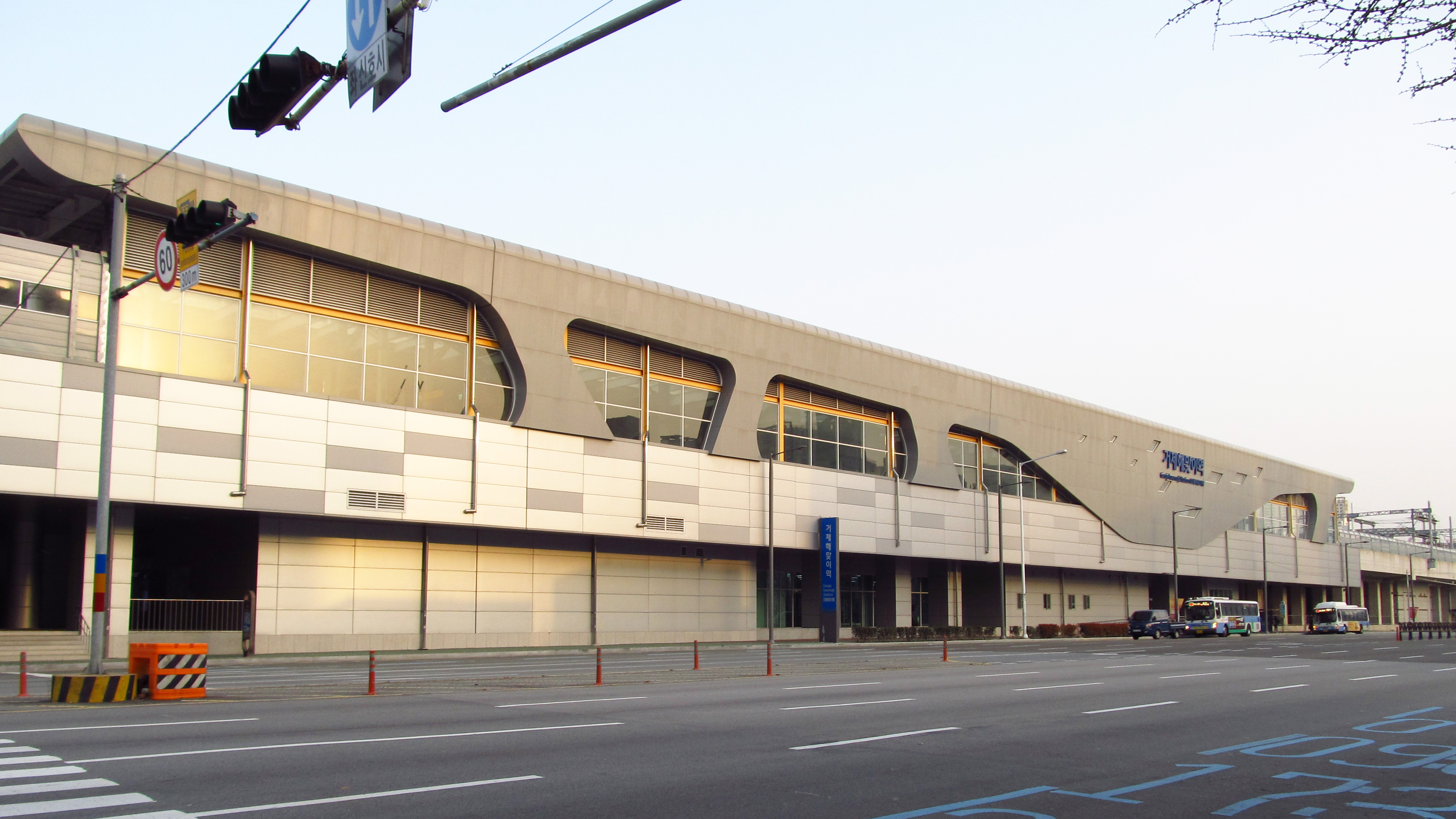 The building of Geojehaemaji Station on the Donghae Line in Yeonje-gu, Busan, Republic of Korea(South Korea)